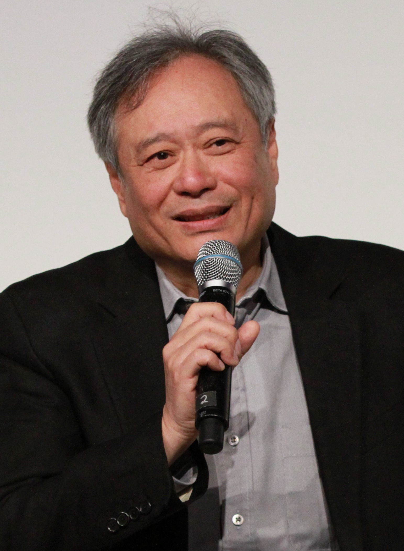 Caption: Ang Lee delivers the keynote at the 2016 NAB Show's The Future of Cinema Conference, produced in partnership with SMPTE Photo Credit: Robb Cohen Photography courtesy of NAB